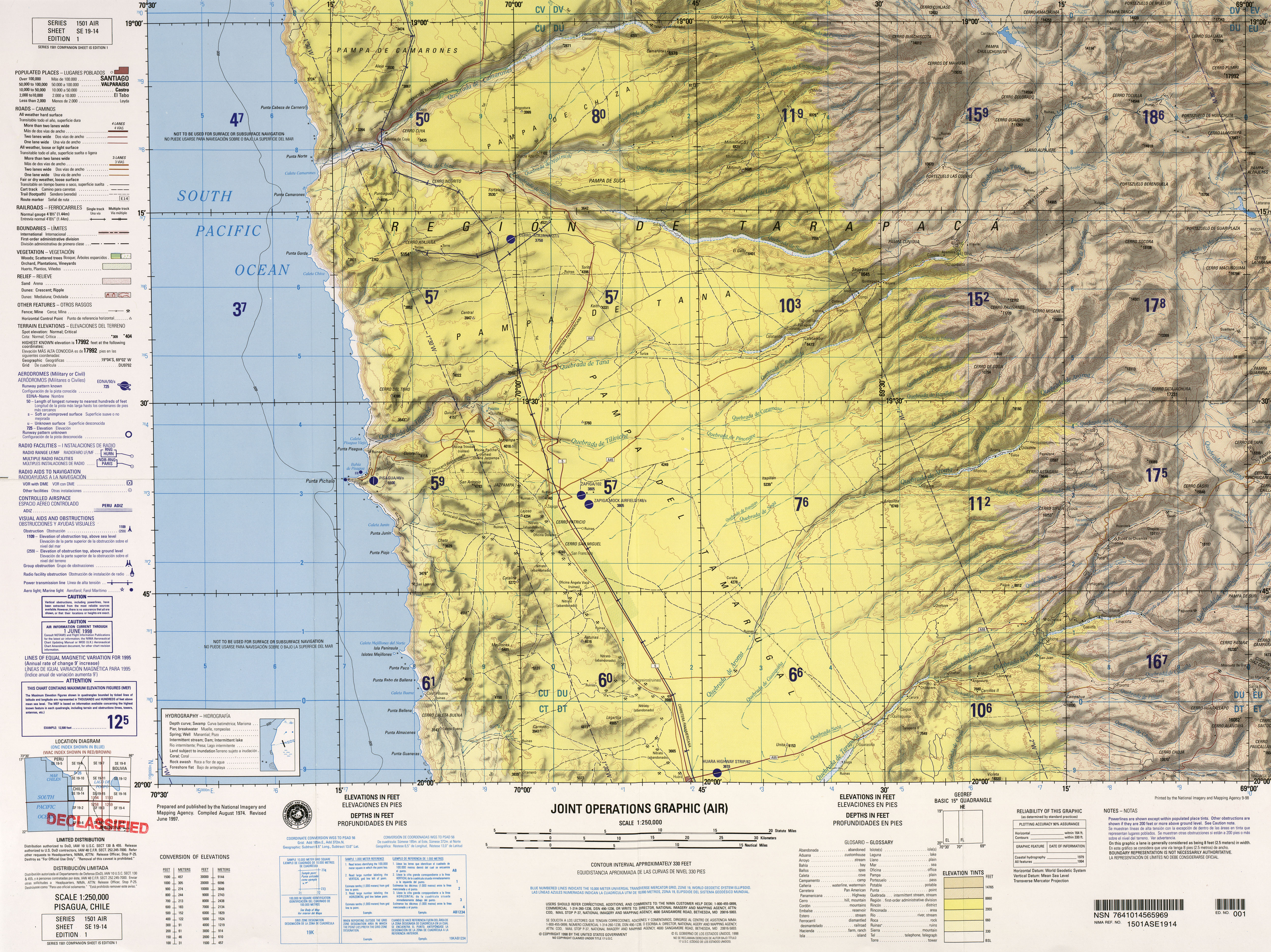 Pisagua, Region de Tarapaca